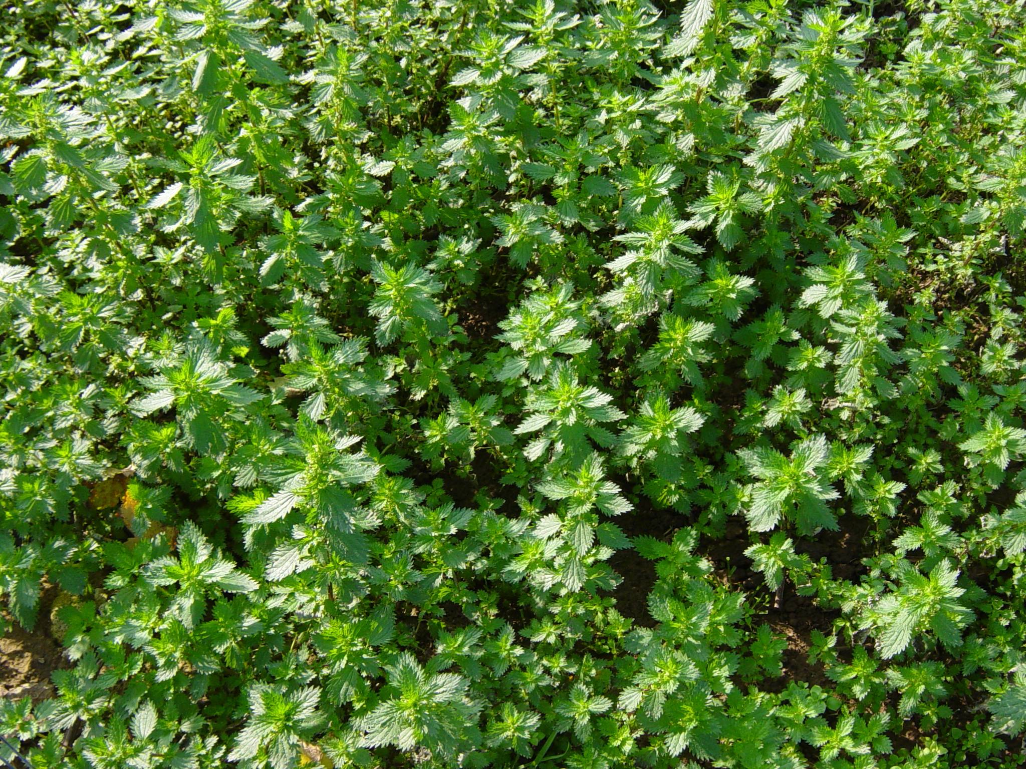 population of Urtica urens